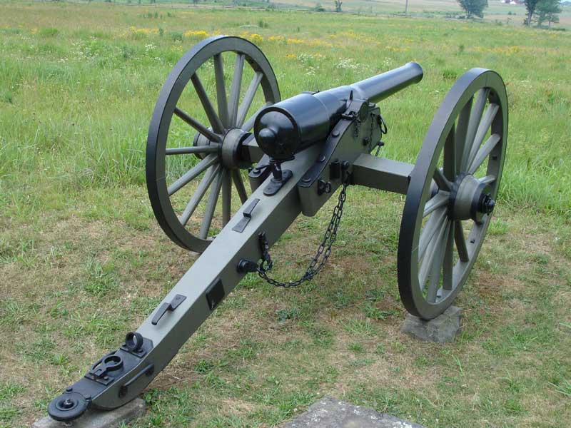 photographed at Gettysburg National Military Park, 2005